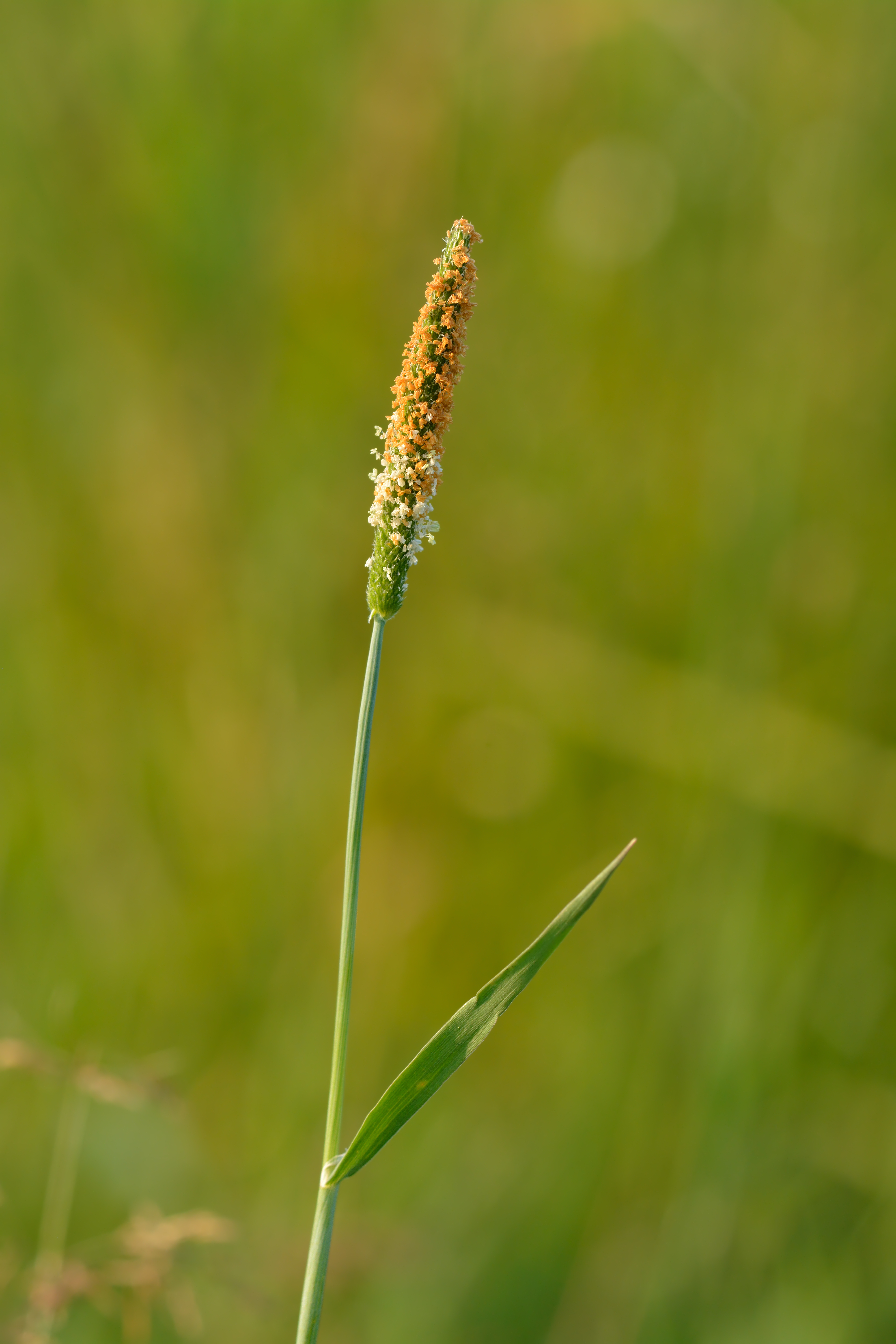 Alopecurus geniculatus - water foxtail in Keila, Northwestern Estonia.